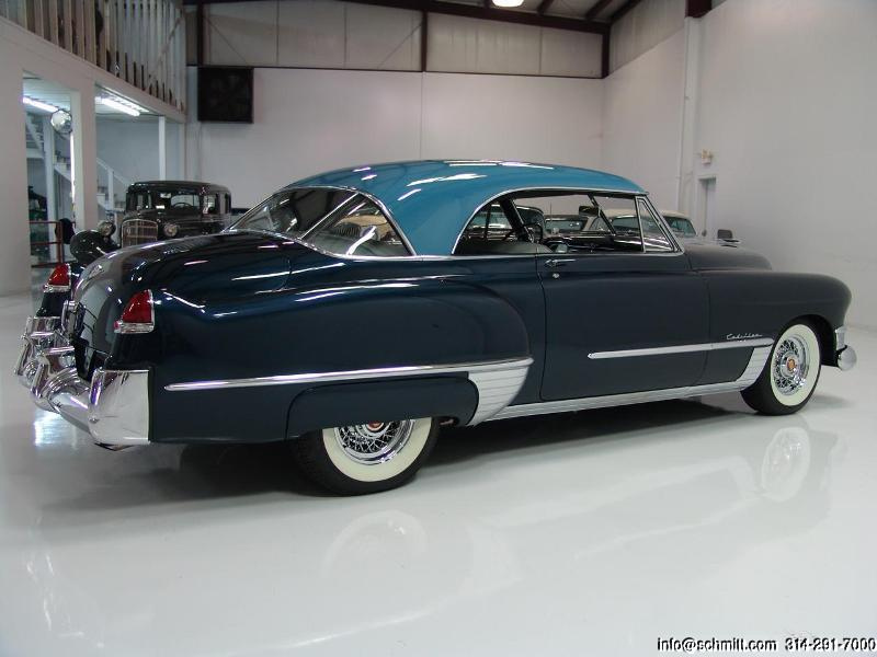 First year of the true hardtop coupe. Developed after a GM stylist noticed that some customers were ordering convertibles and never puting the tops down because they liked the open feeling with all the windows down, yet the shade and protection of the roof. Thus the hardtop was born to capture this market.